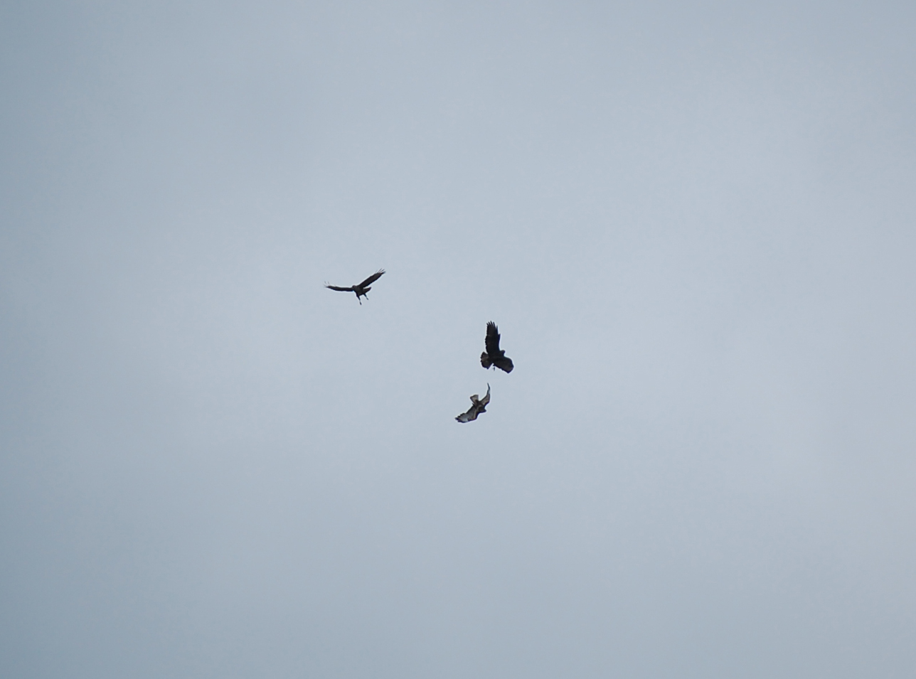 Three Buzzards Buteo buteo having a fight, Azores